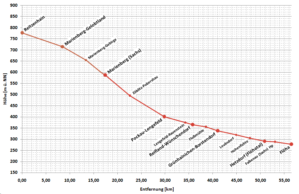 simplified altitude-profile of railway track Reitzenhain–Flöha